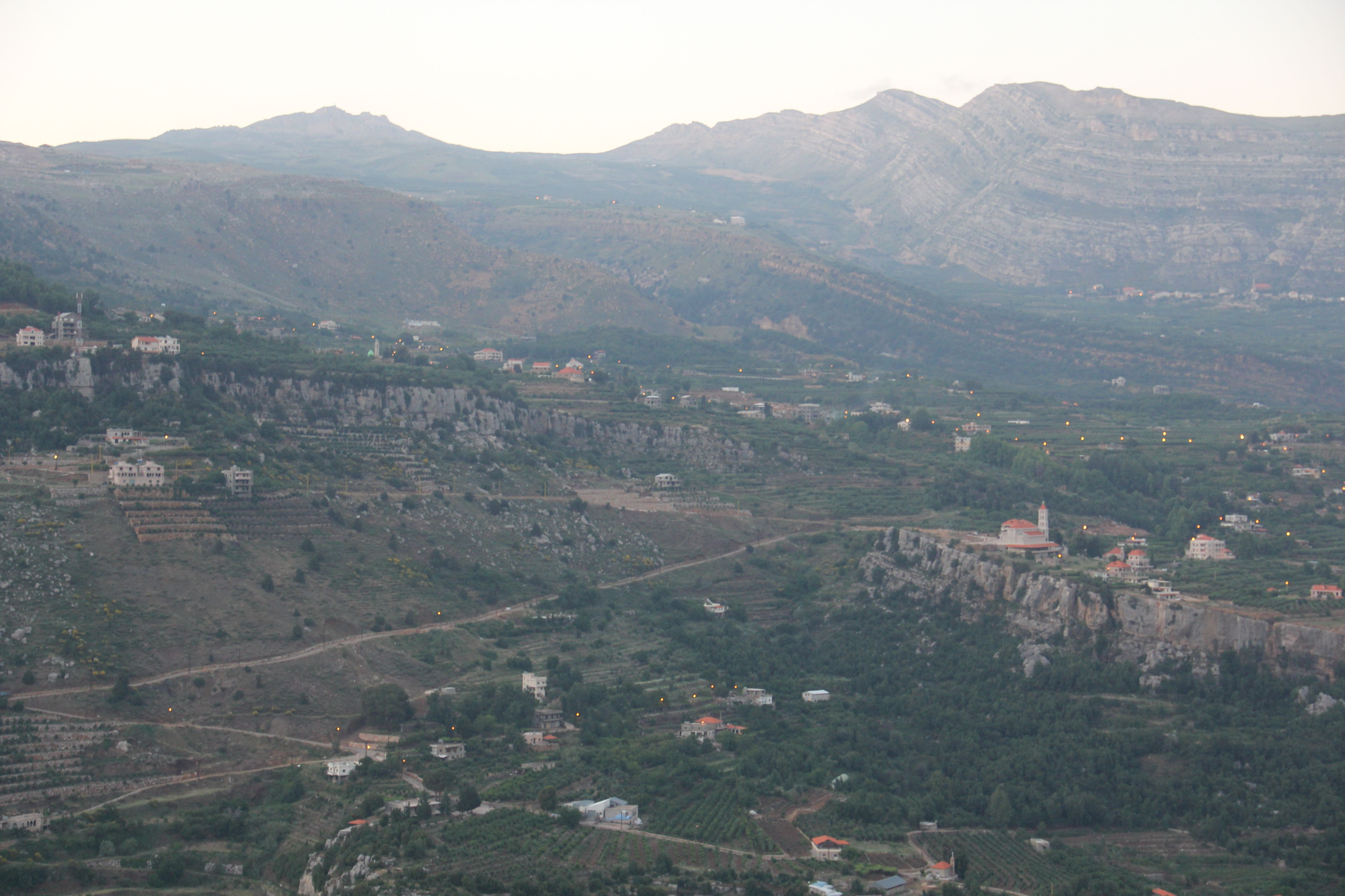 المغيري من الغابات مايو - 2016